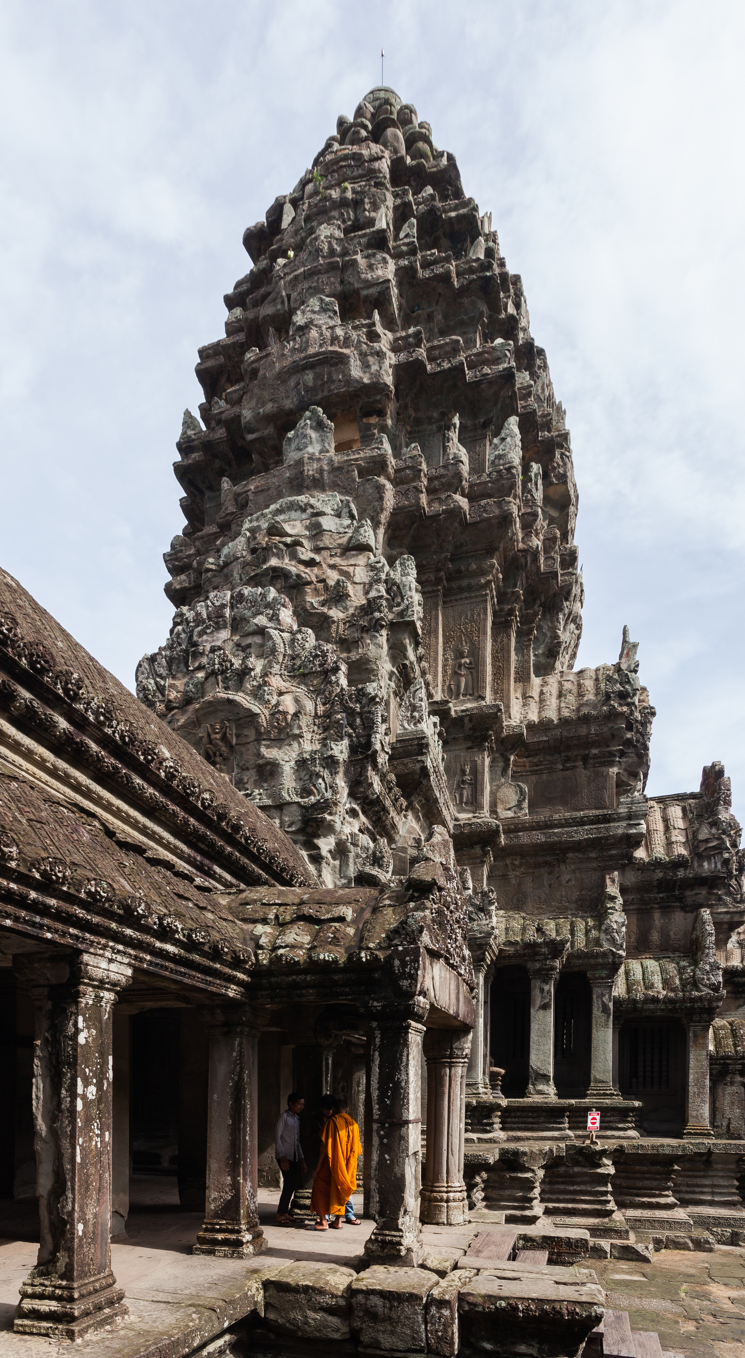 Angkor Wat, Cambodia